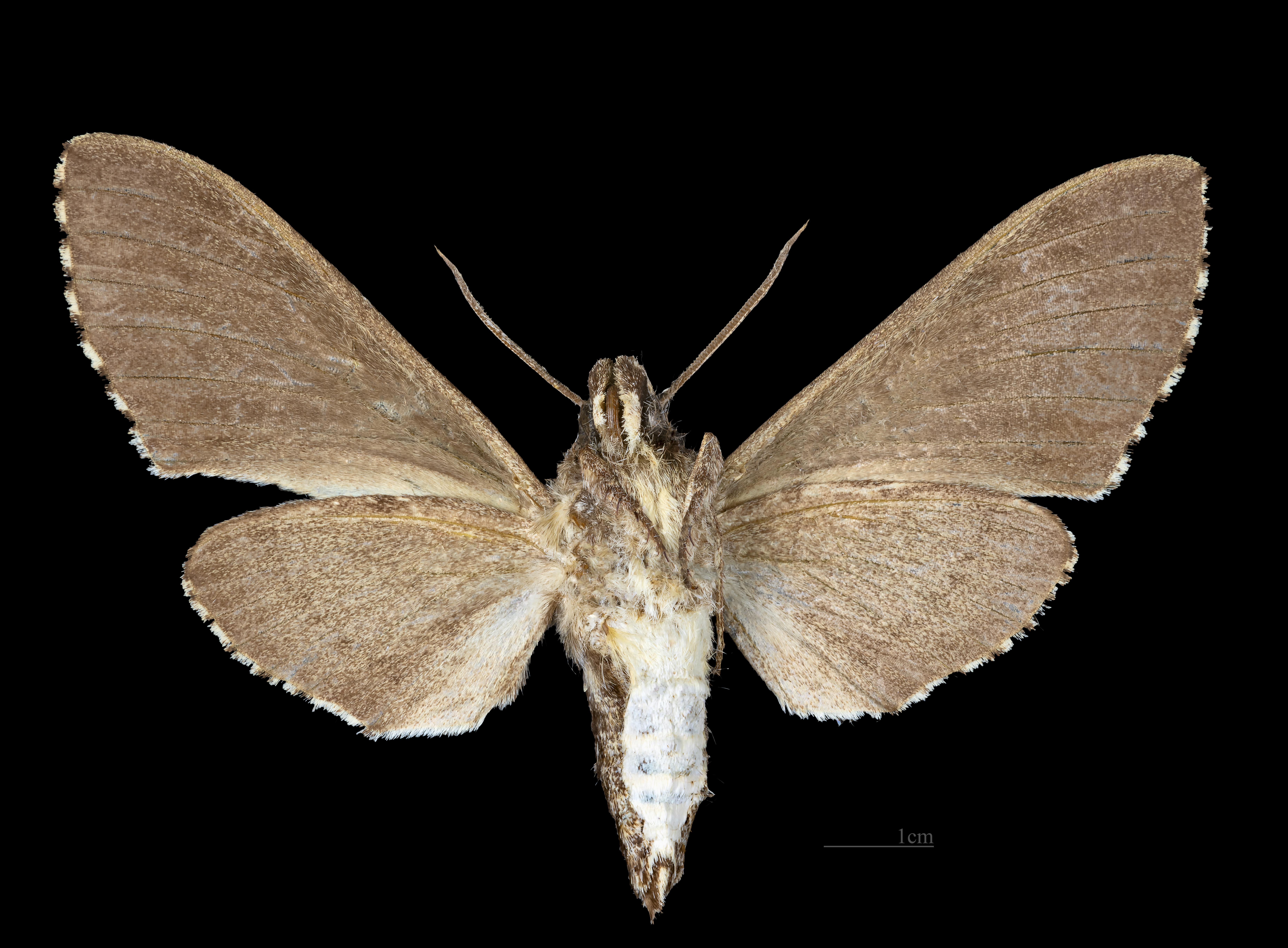 Ceratomia igualana - △ Ventral side Collection of the Mathematician Laurent Schwartz